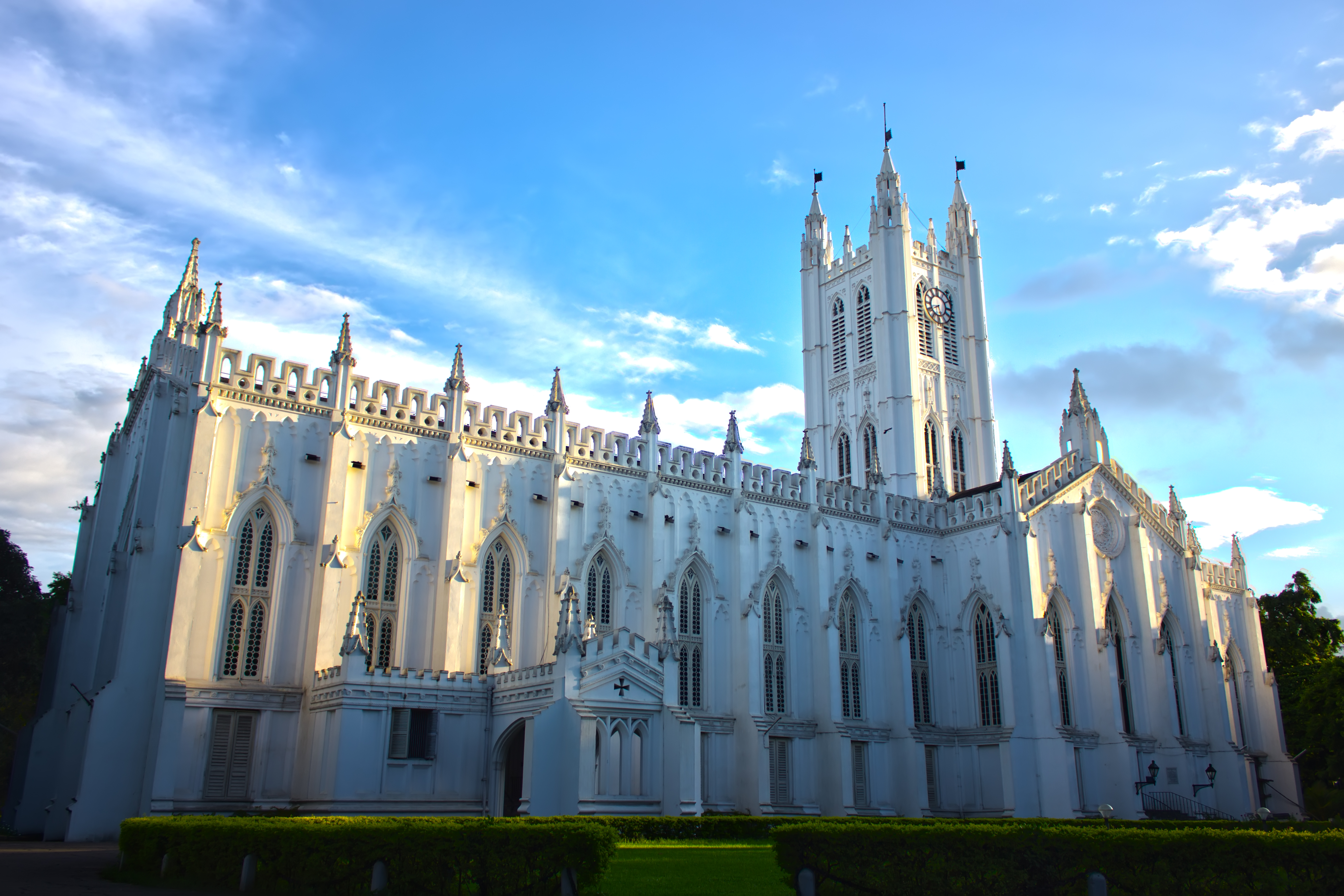 St. Pauls